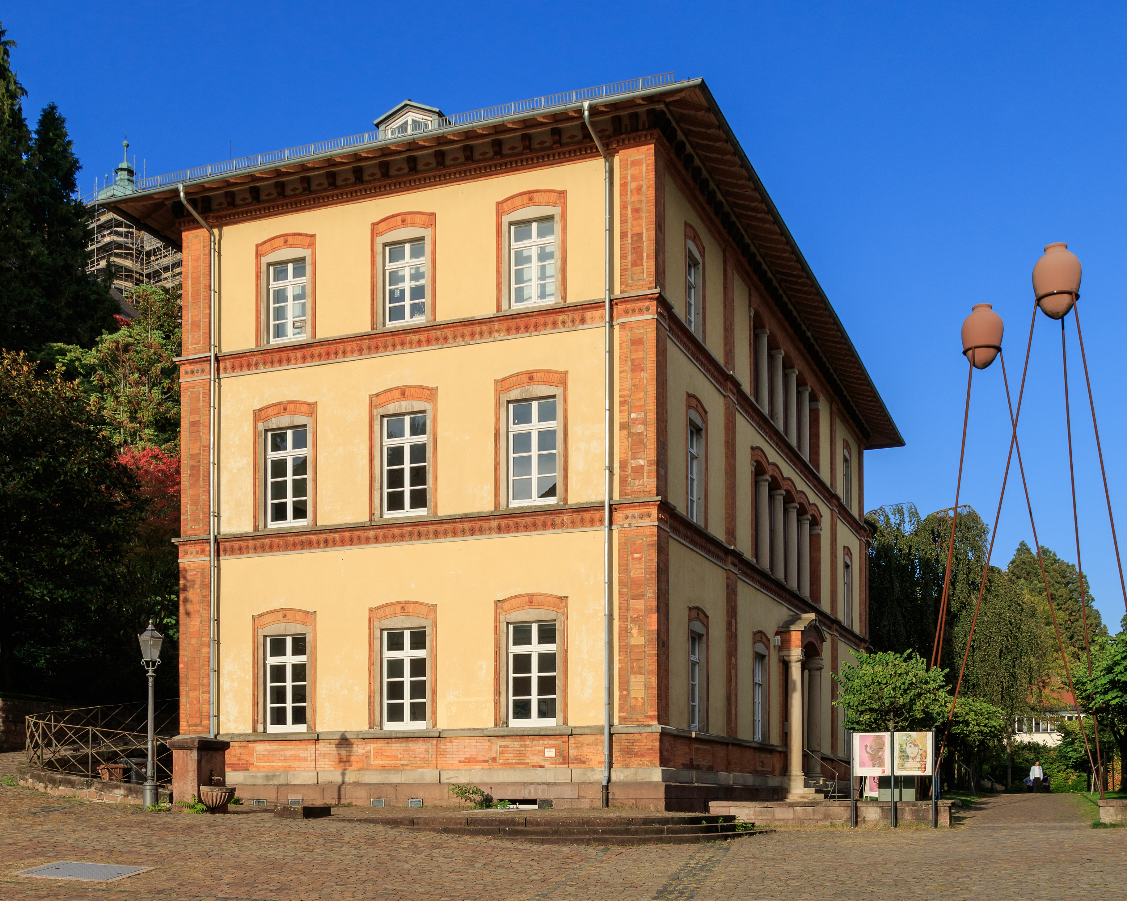 Old Bathhouse (Altes Dampfbad) at Market Square in Baden-Baden (BW, Germany).